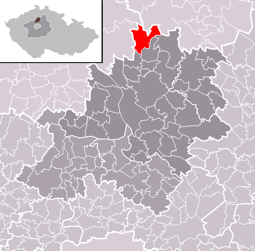 Location of Medonosy municipality within Mělník District and administrative area of Mělník as a Municipality with Extended Competence.